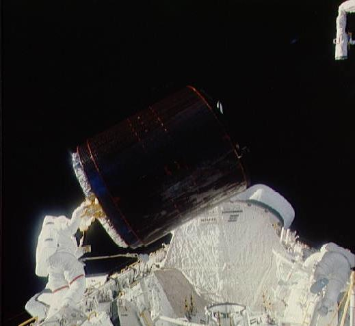 Palapa B-2 is loaded into the payload bay during STS-51-A. Astronaut Joseph P. Allen IV, left, tethered to the orbiting Discovery, holds onto the Palapa B-2 satellite with his right hand while Astronaut Dale A. Gardner returns the used "stinger" device to its stowage area. The payload bay is open, showing the area where the satellite will be stowed for the return to Earth